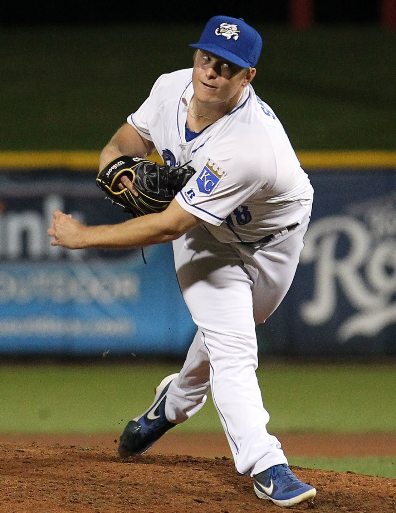 Gabe Speier delivers a pitch for the Omaha Storm Chasers during a 2019 game at Werner Park in Nebraska